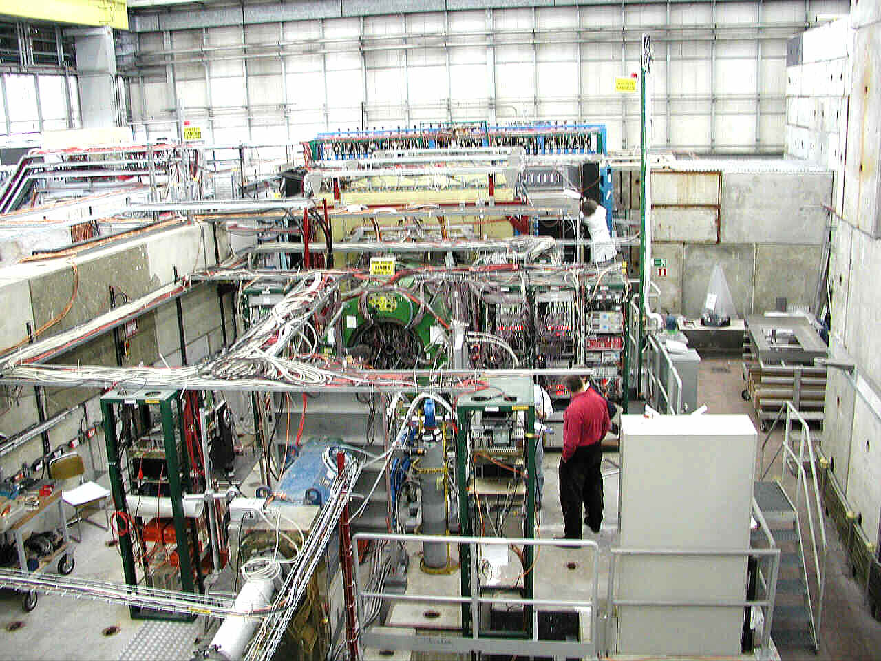 General view from HARP—PS214 experiment in CERN hall no. 157.